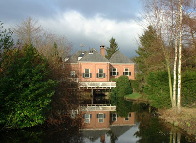 Stoomgemaal Vogelswerf